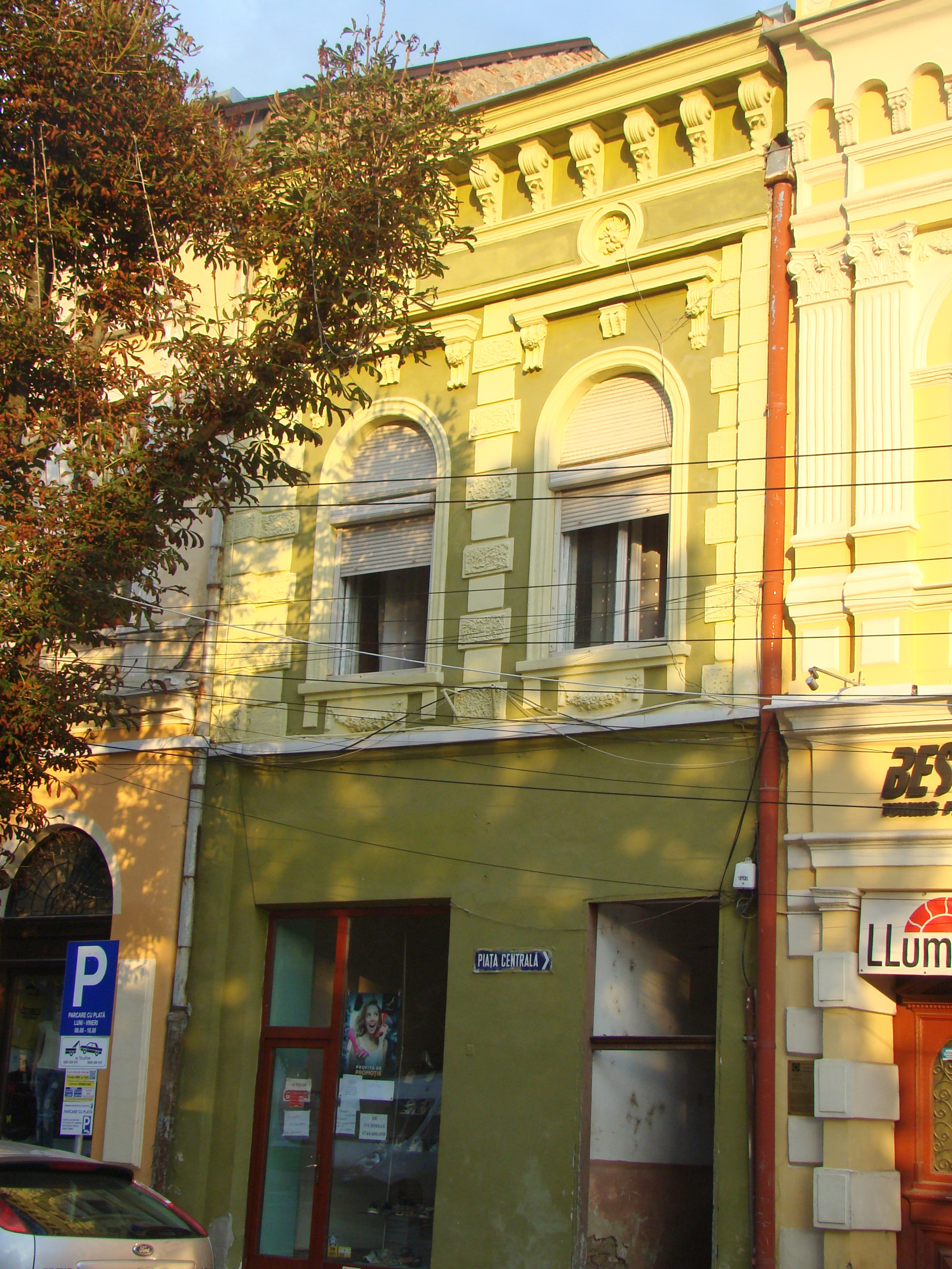 House, historic monument, in Bistrița, Piața Centrală 40